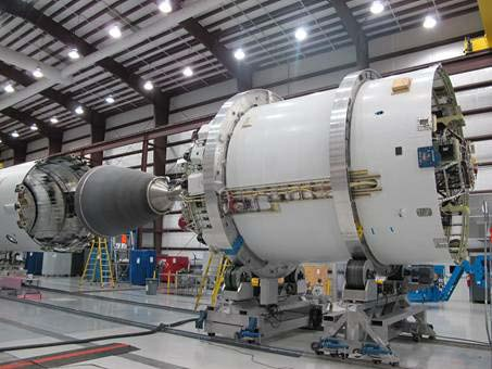 None.